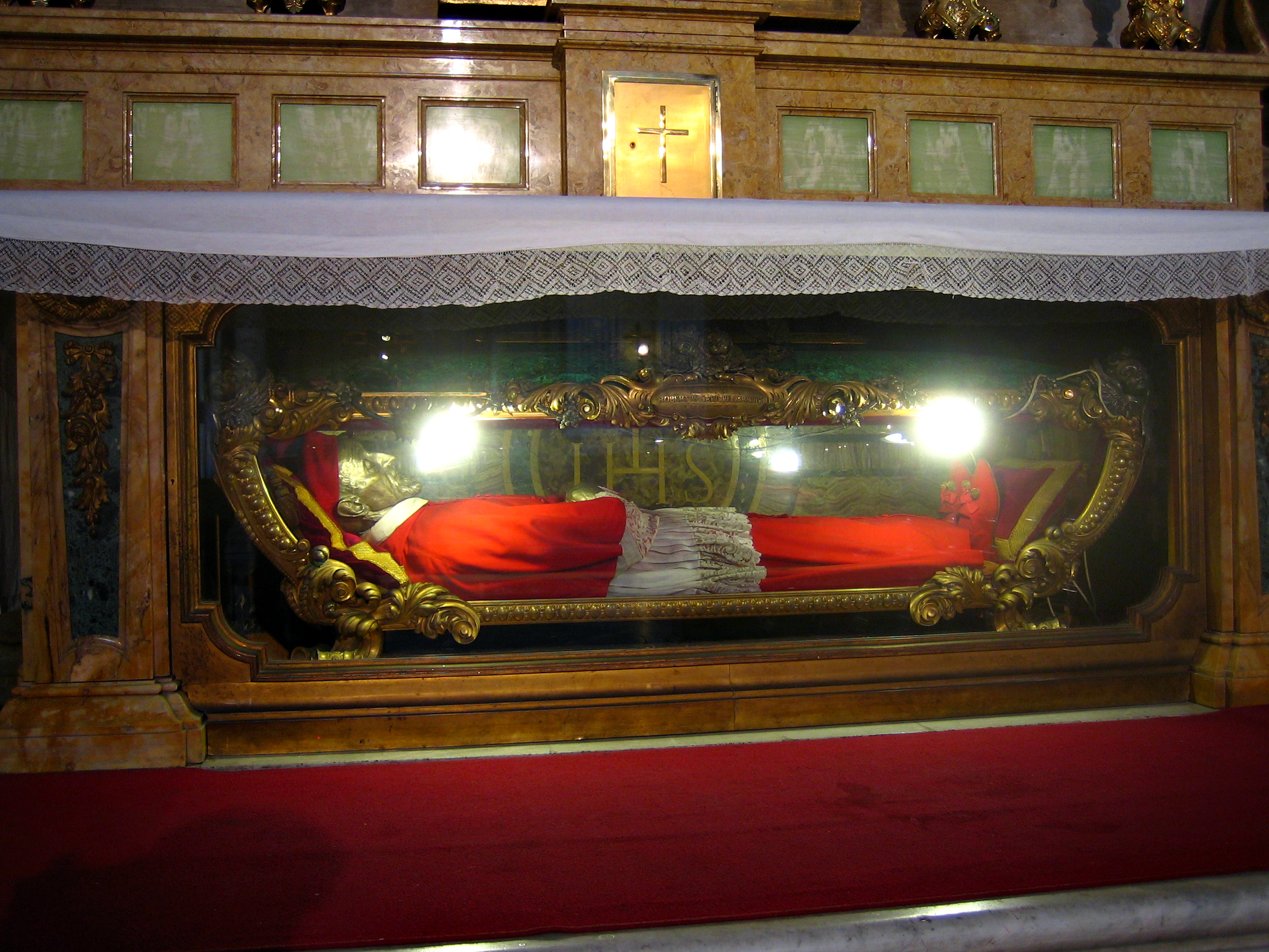 Sant'Ignazio, Roma, Italia. The body of Roberto, cardinal Bellarmino.s ignazio, body of st robert bellarmine